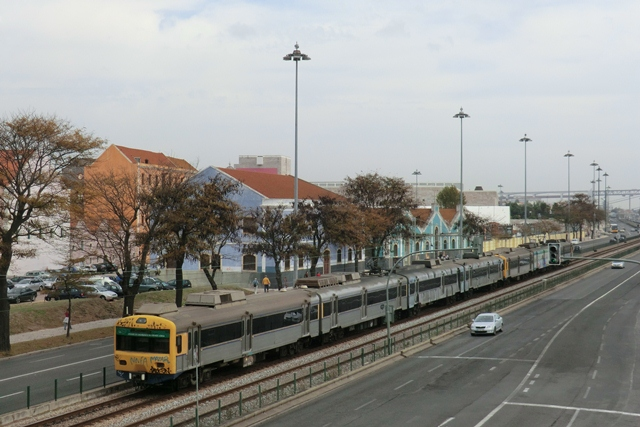 Cascais railway